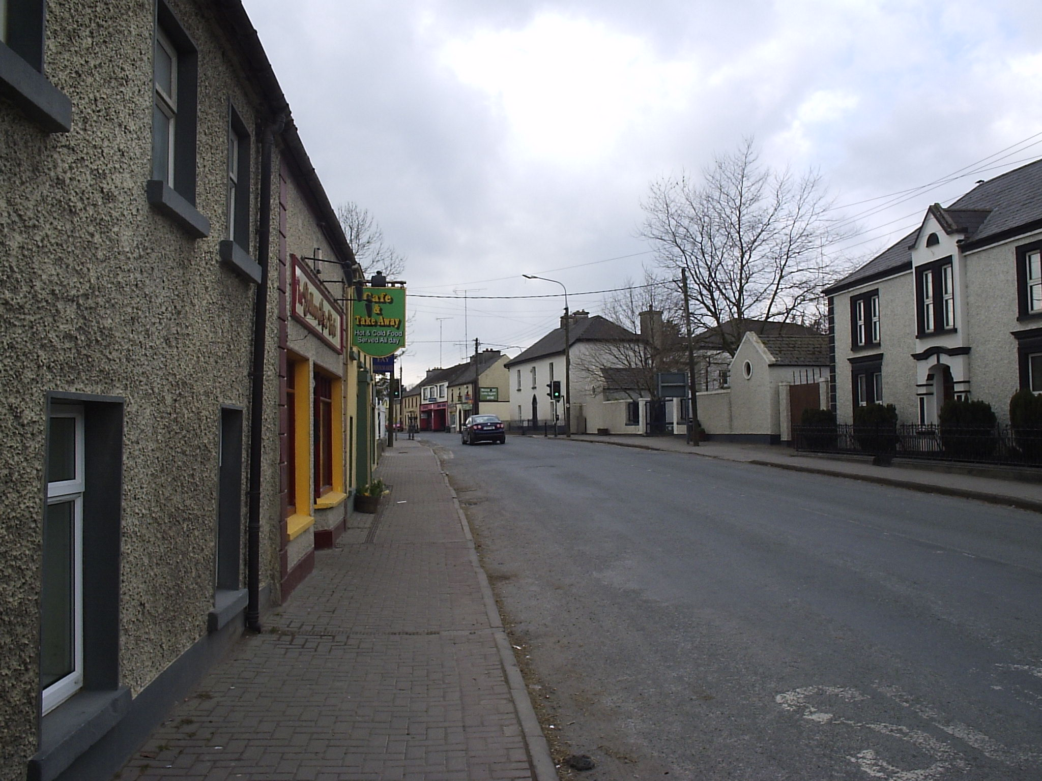 Main street Rochfortbridge. Facing westwards along the N6 from the centre of the town.